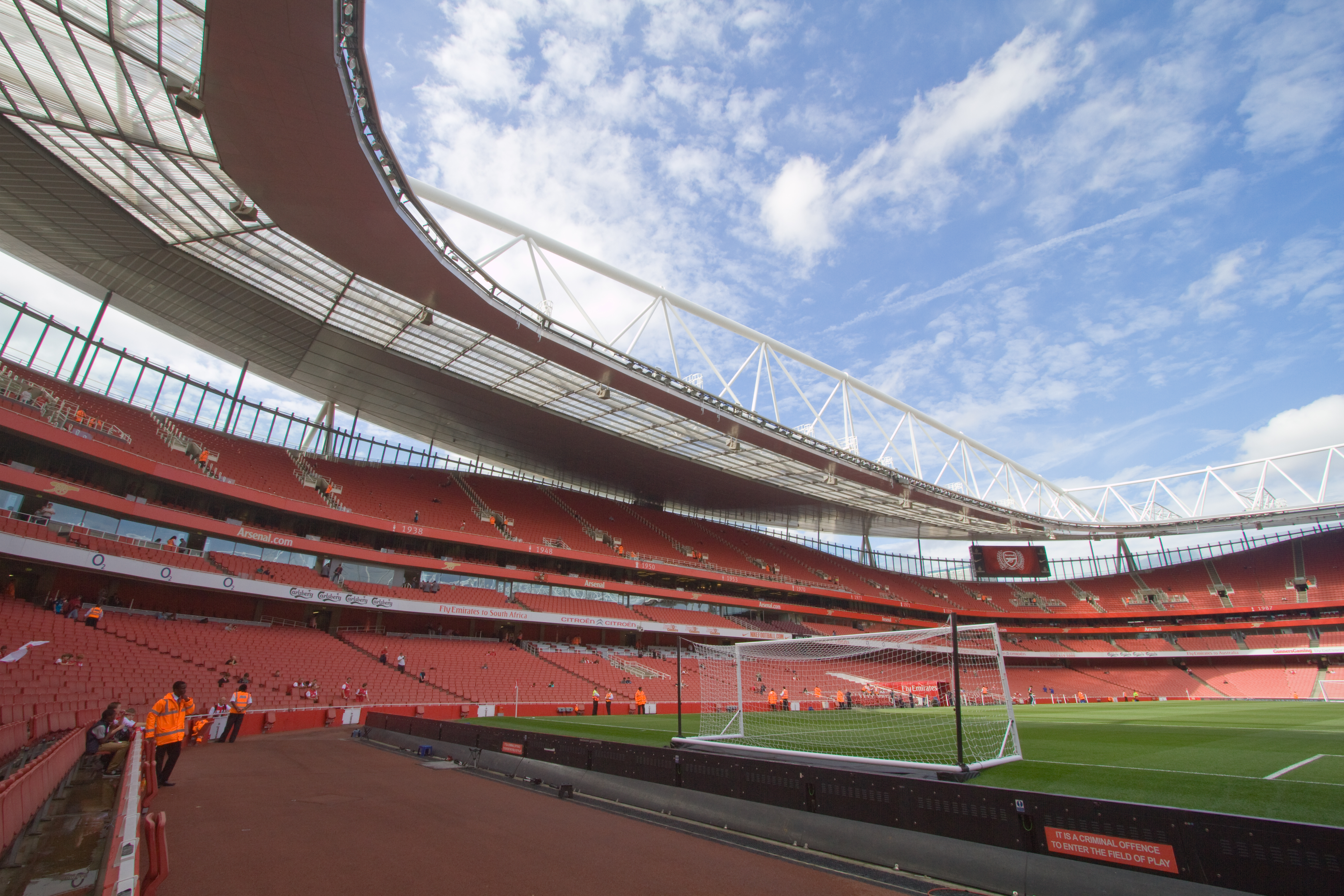 The Emirates Stadium is the home arena for Arsenal F.C. in England.